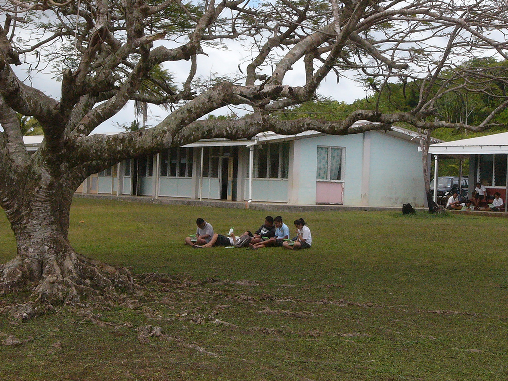 Children in playground